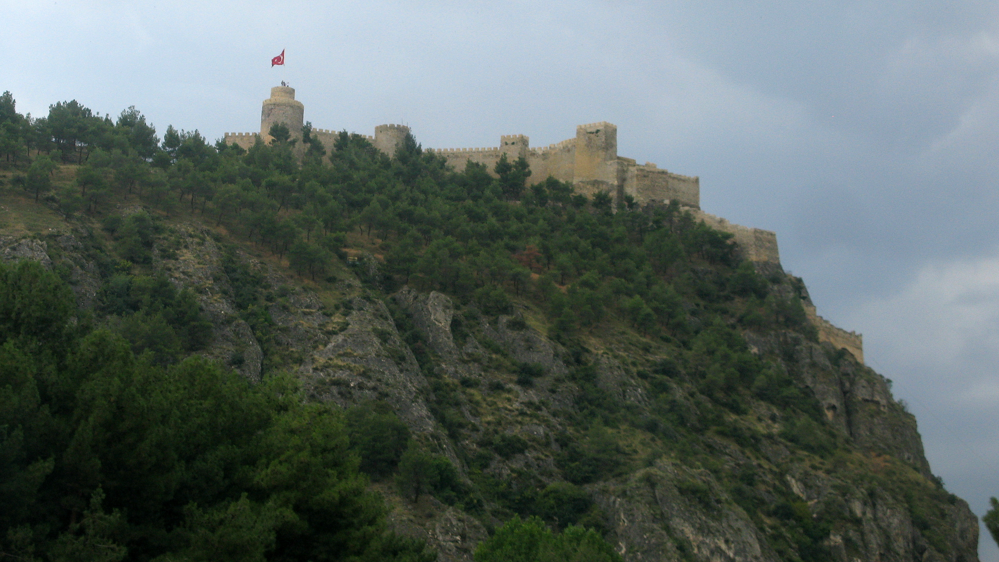 The castle of Boyabat, Province of Sinop, Turkey. The picture was taken from the main road.